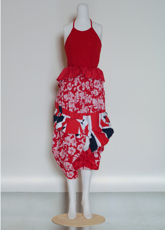 Dress by Comme des Garçons, Spring 2006 Ready-to-Wear collection reference, Look 9